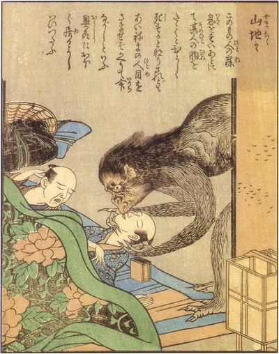 Yamachichi (山地乳) from the Ehon Hyaku monogatari (絵本百物語)